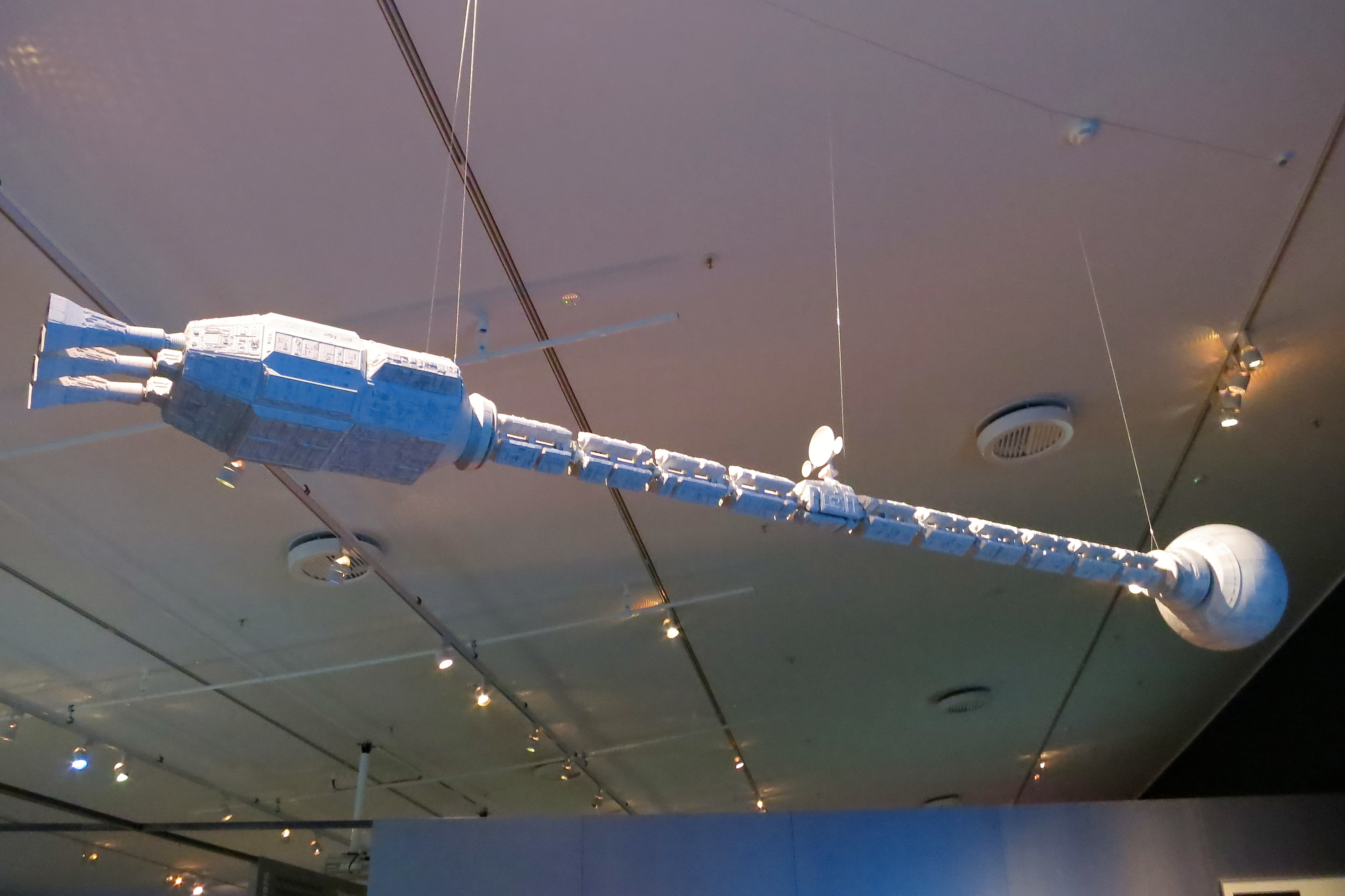 Discovery One spaceship from the film 2001: A Space Odyssey by Stanley Kubrick. Exhibit at EYE Filminstitut Netherlands, Amsterdam.